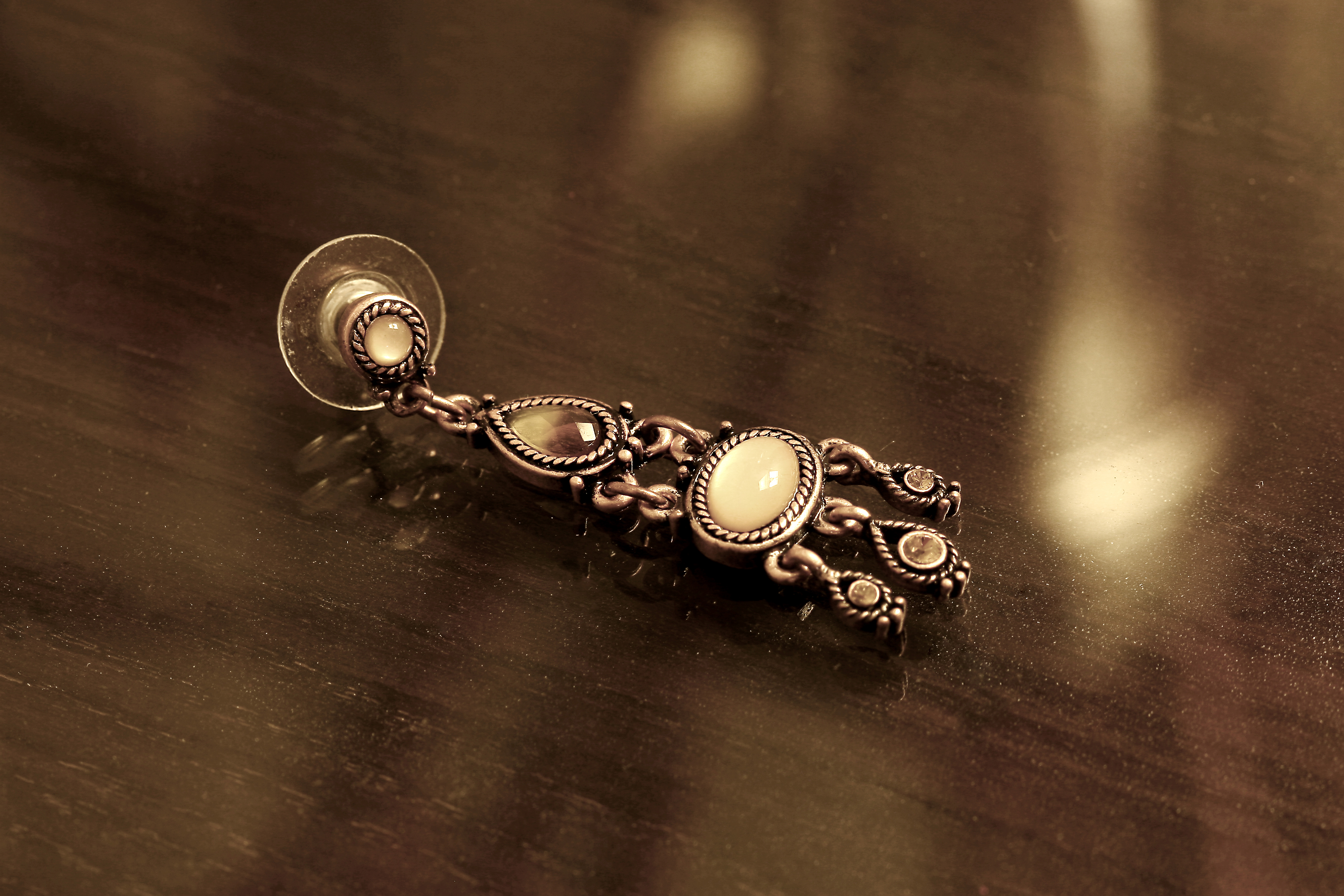 A piece of earring with an intricate design